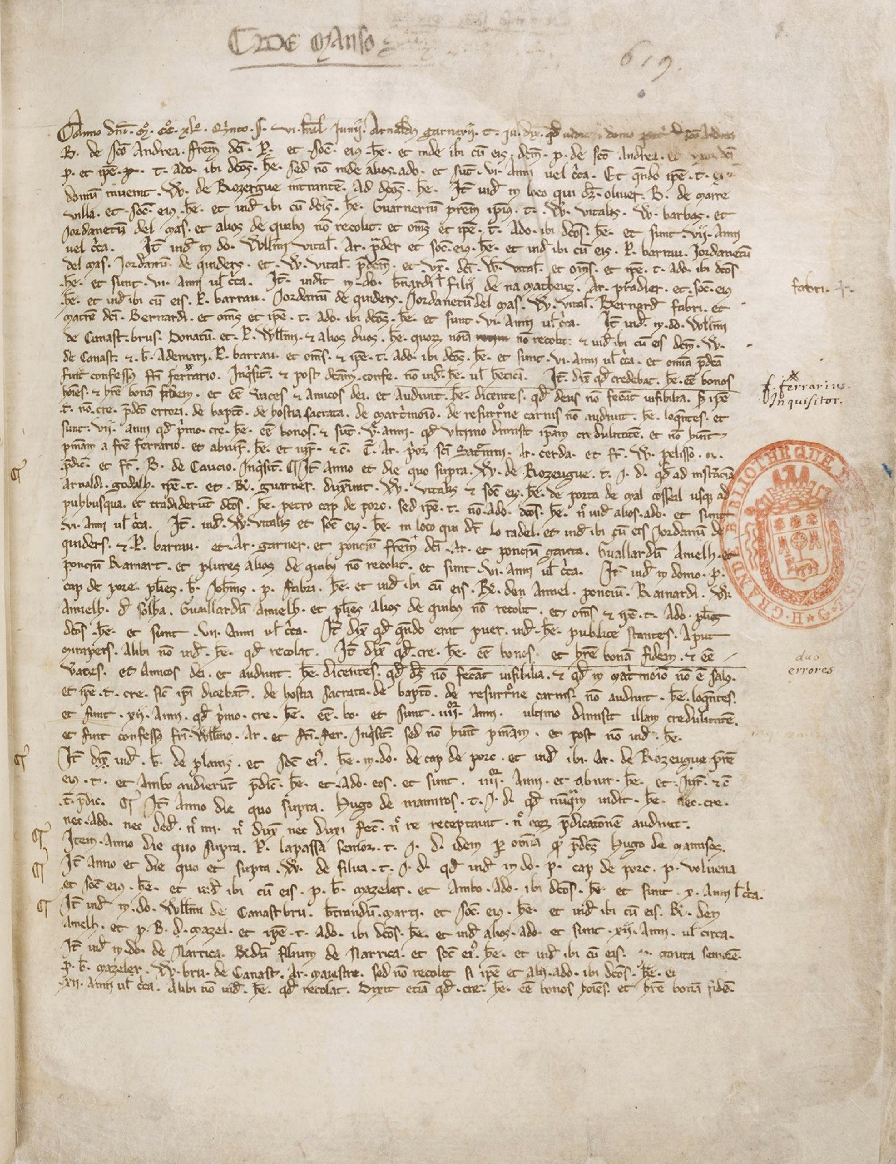 First page of witness interrogations from the manuscript transcription of Interrogatoires subis par des hérétiques albigeois par-devant frère